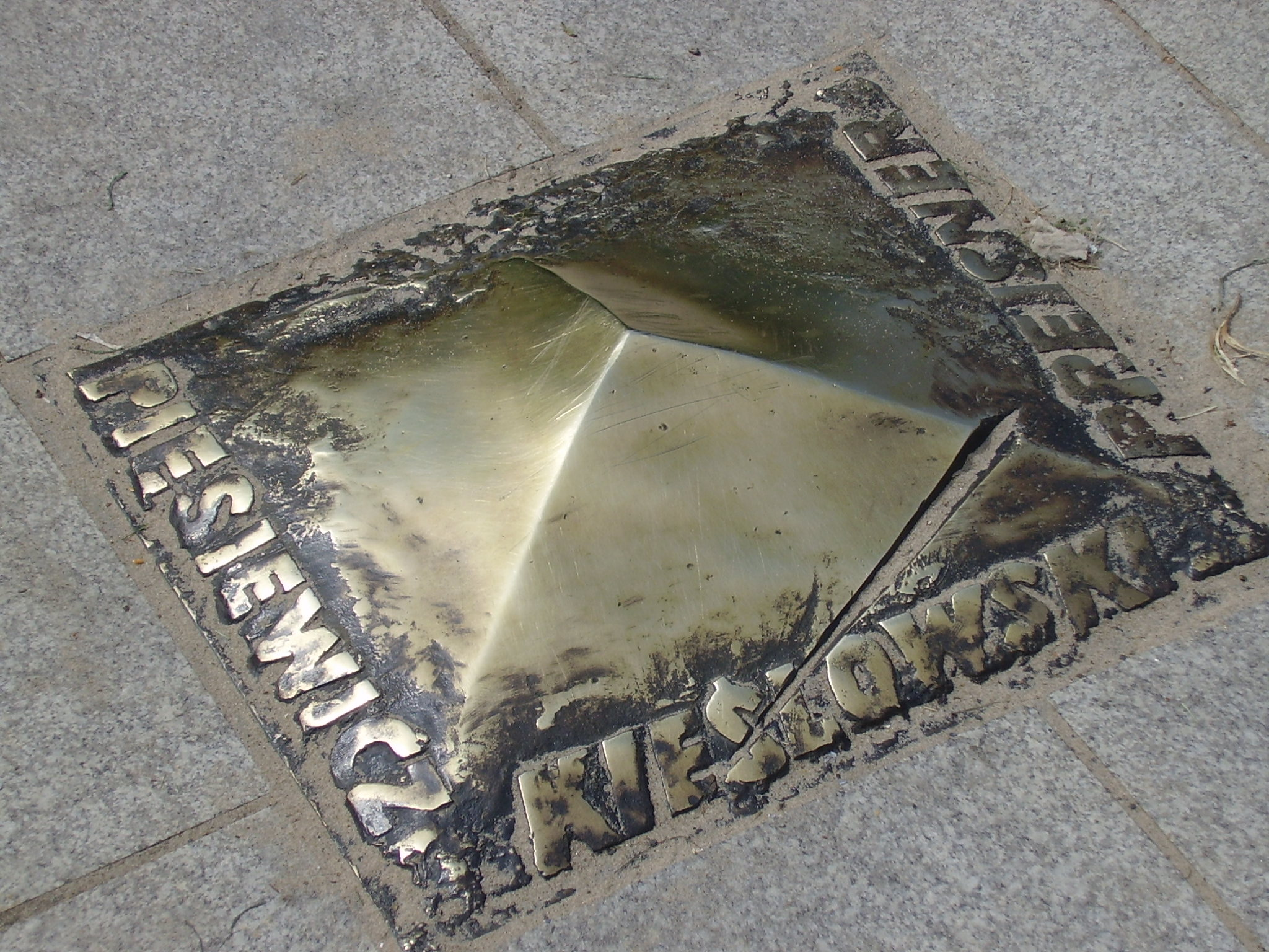 Promenada Gwiazd in Międzyzdroje (Poland)